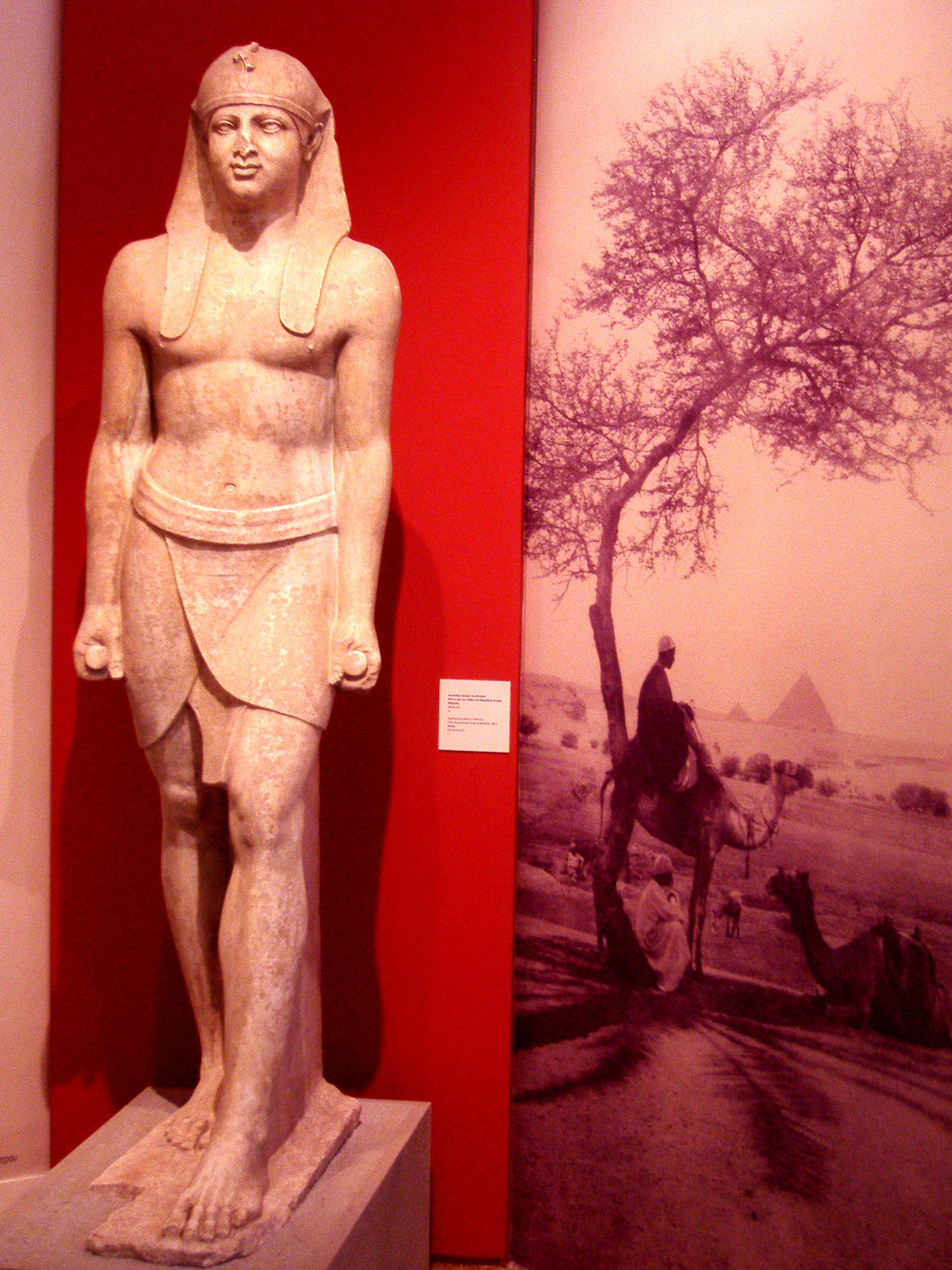 Egyptianizing statue of Antinoos. From the sanctuary of Isis at Marathon, Attica. Athens Archaeological Museum, Greece. Marble. 2nd century AD